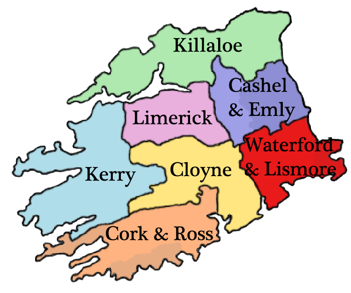 Catholic Province of Cashel and Emly. This is a current map of the ecclesiastical province in the Catholic Church. The crosses mark where the current Cathedrals of each diocese is located. The specific dioceses are in different colours.